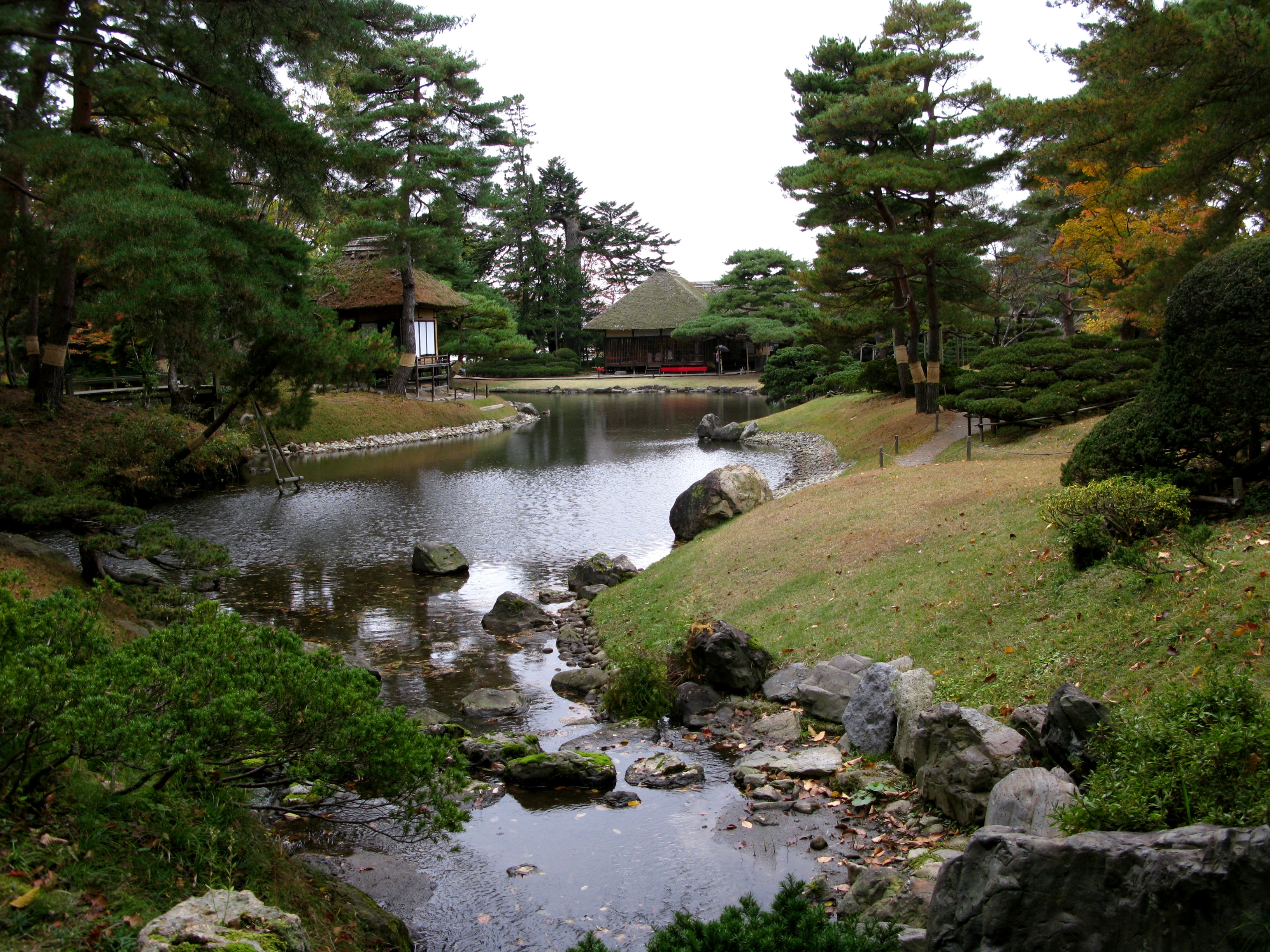 Aizu Matsudaira's Royal Garden, Aizuwakamatsu city, Fukushima pref., Japan